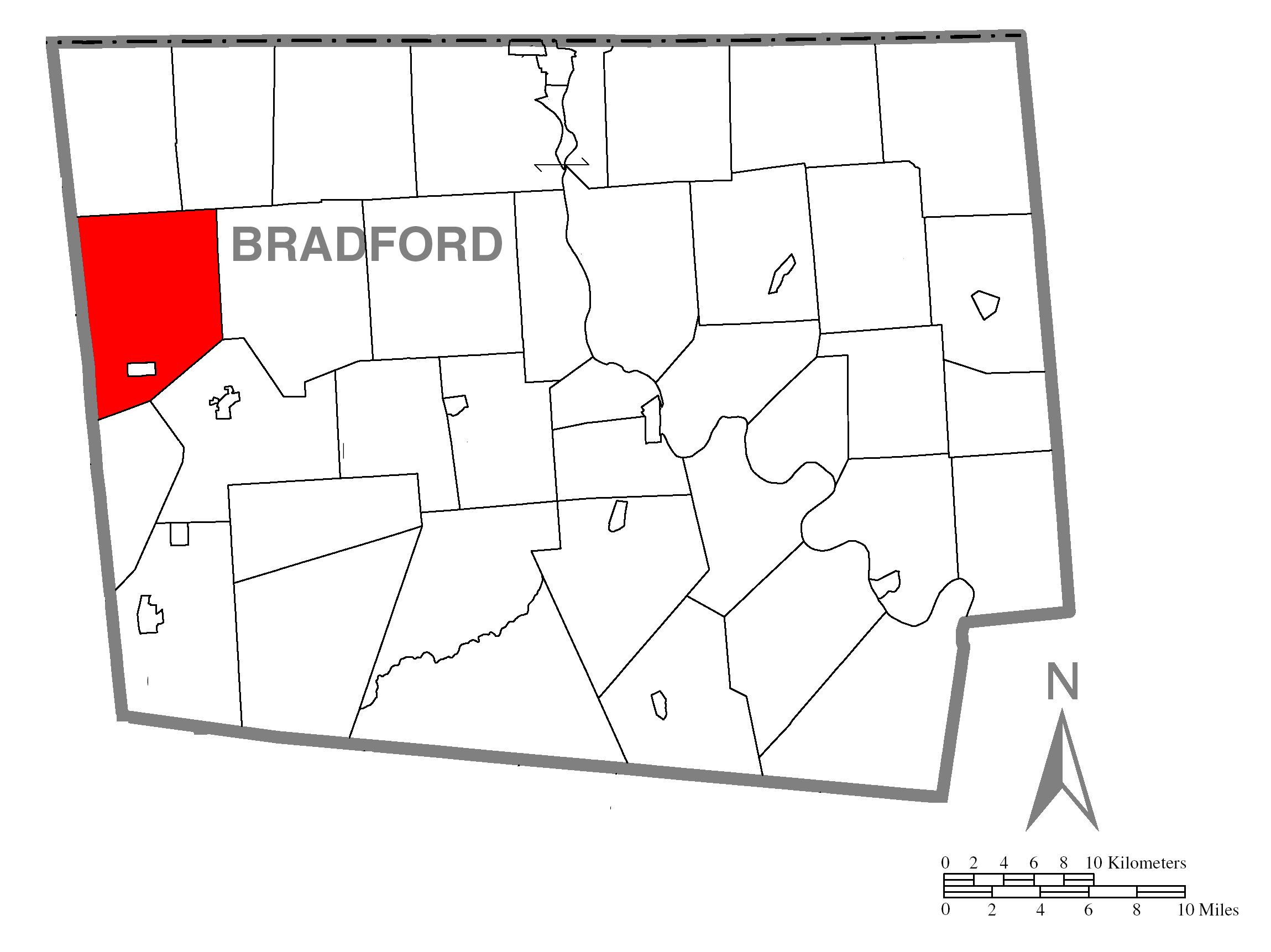 A map of Bradford County showing Columbia Township, Pennsylvania (alternate) highlighted on the map.